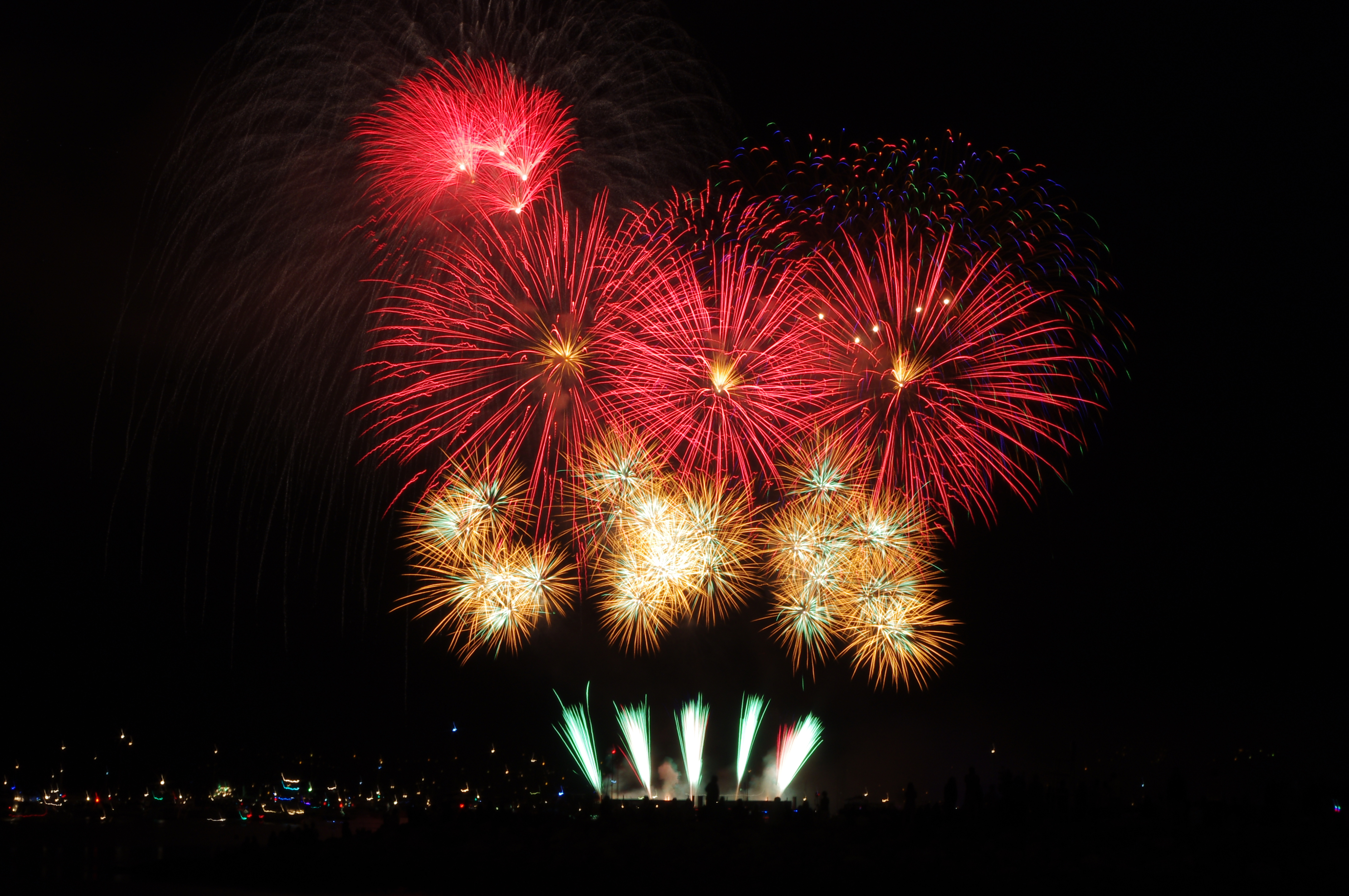 Brazil's fireworks at the 2012 Celebration of Light in Vancouver, BC